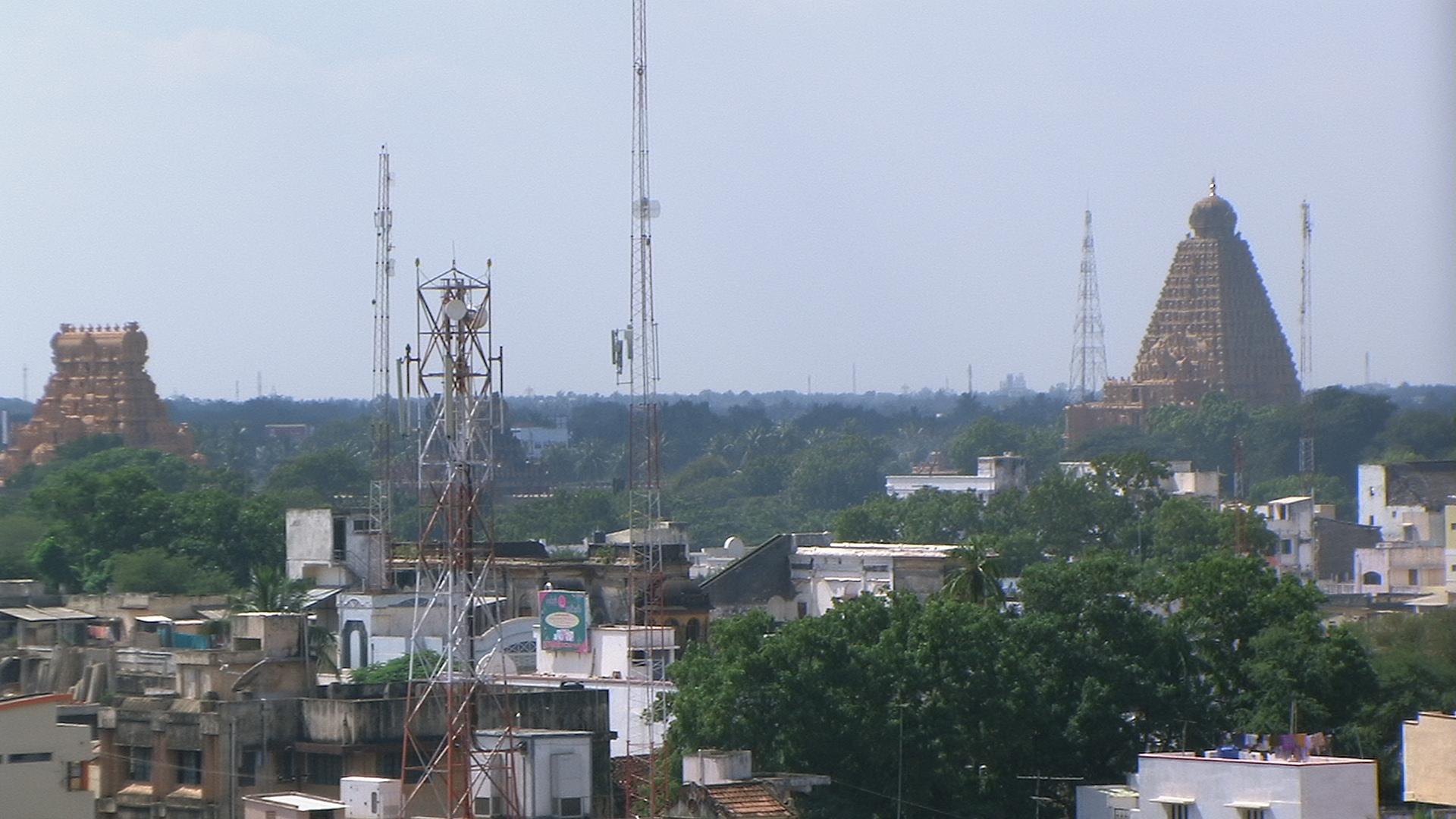 View of Thanjavur city with the Brihadeeswara Temple in the background